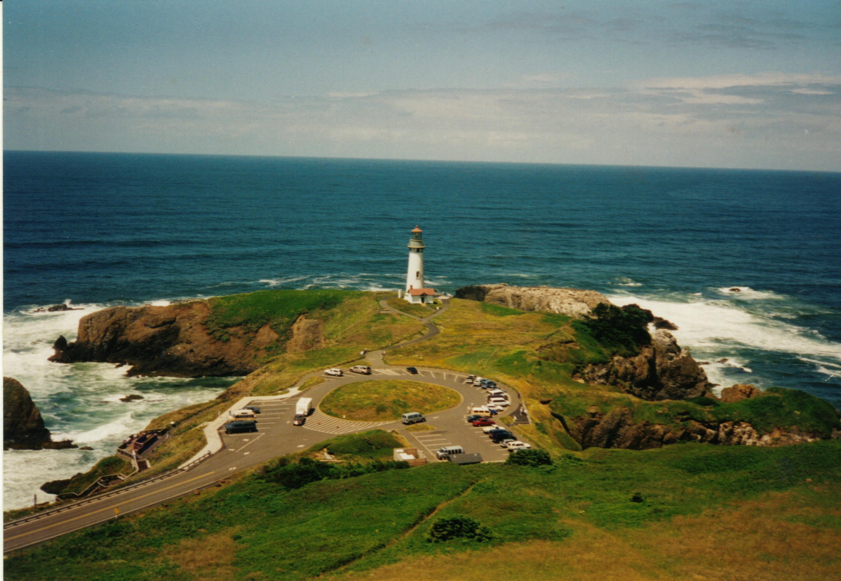 Yaquina Head Light close to Newport, Oregon